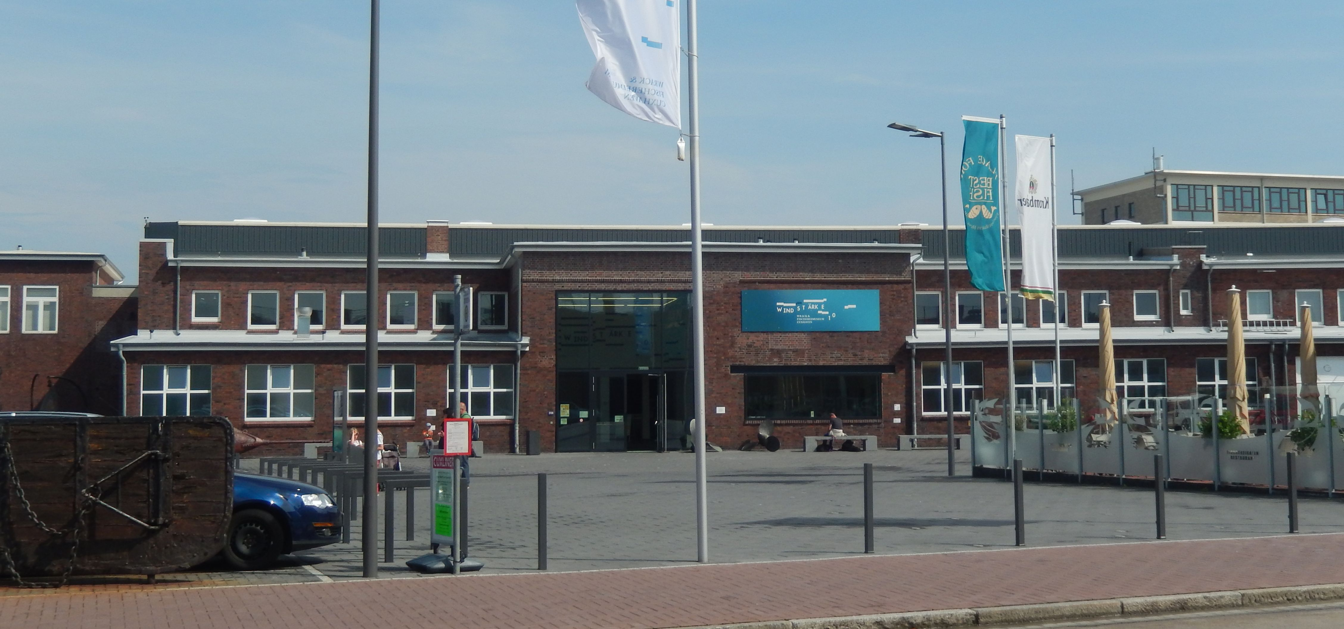 Museum in Cuxhaven, Germany.